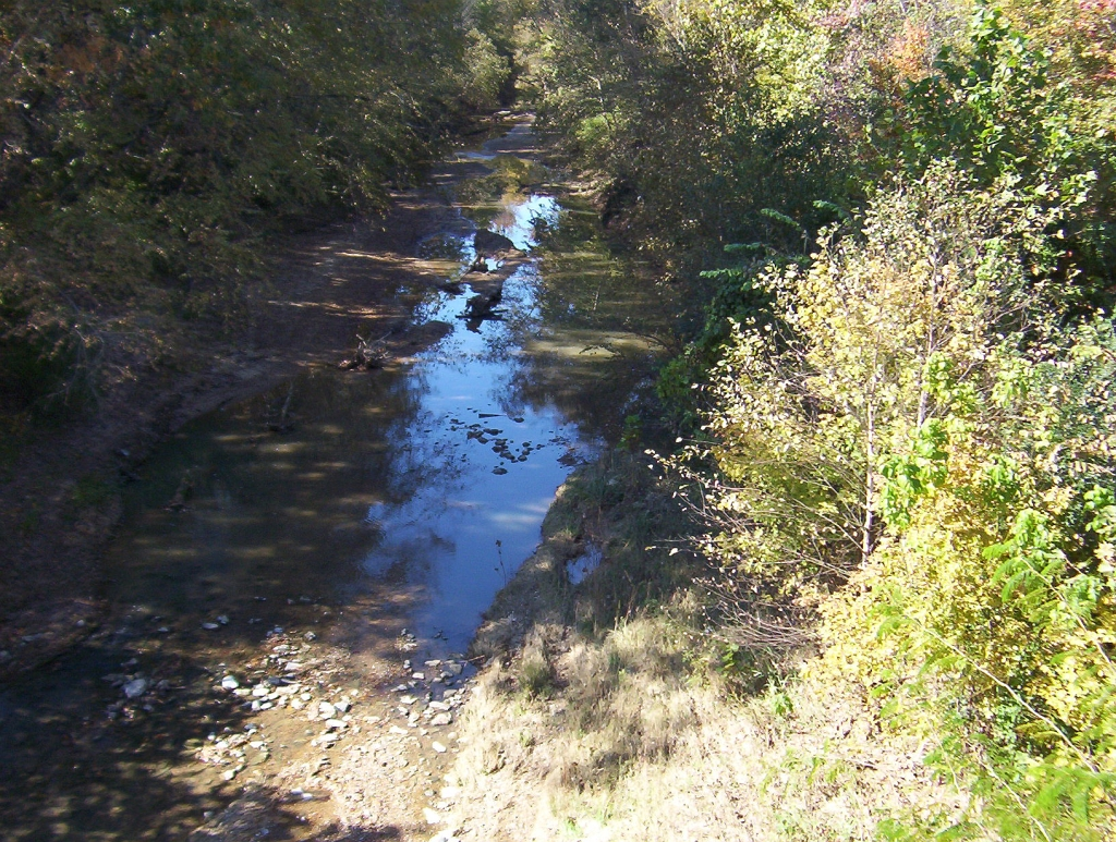 Nonconnah Creek at Forest Hill Irene Rd overpass near Germantown, facing west. In Shelby County, Tennessee. I made the photo myself, feel free to use it.